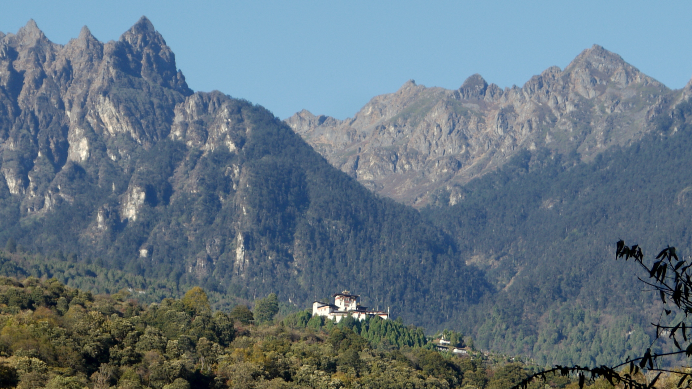 view of Gasa Dzong, Gasa District, Bhutan, from access road @ 4km, December 2010